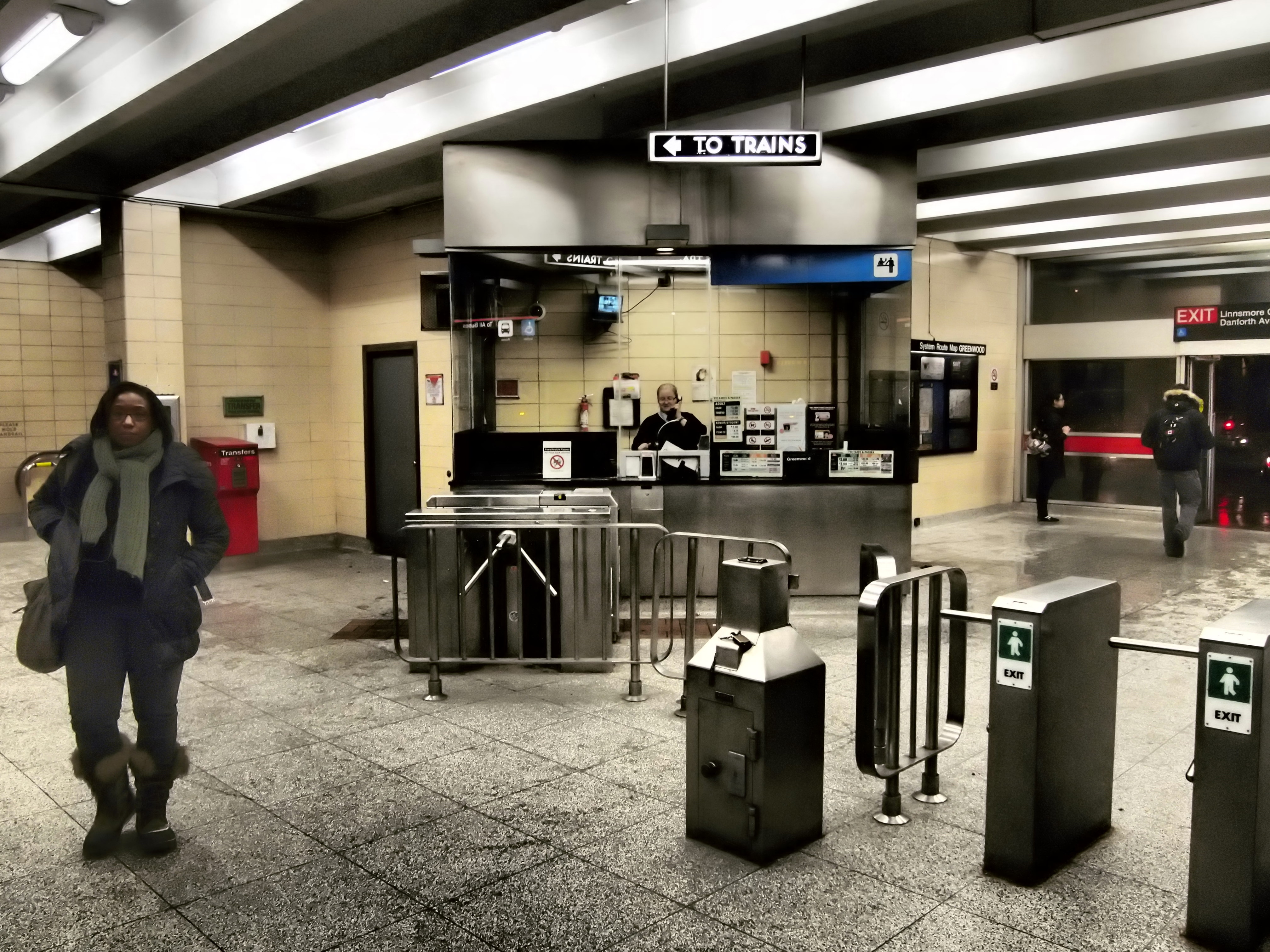 Greenwood subway station in Toronto